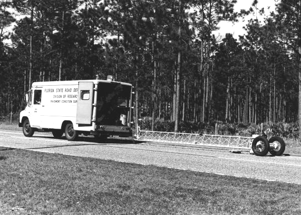 A Florida State Road Department (now Florida Department of Transportation) van pulls a Cloe profilometer.